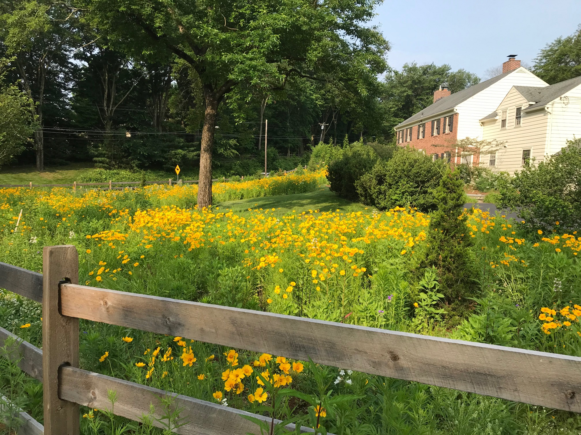 Great example of a naturalized / meadow-ed front lawn at Williamson Rd and Amies Lane in Gladwyne.